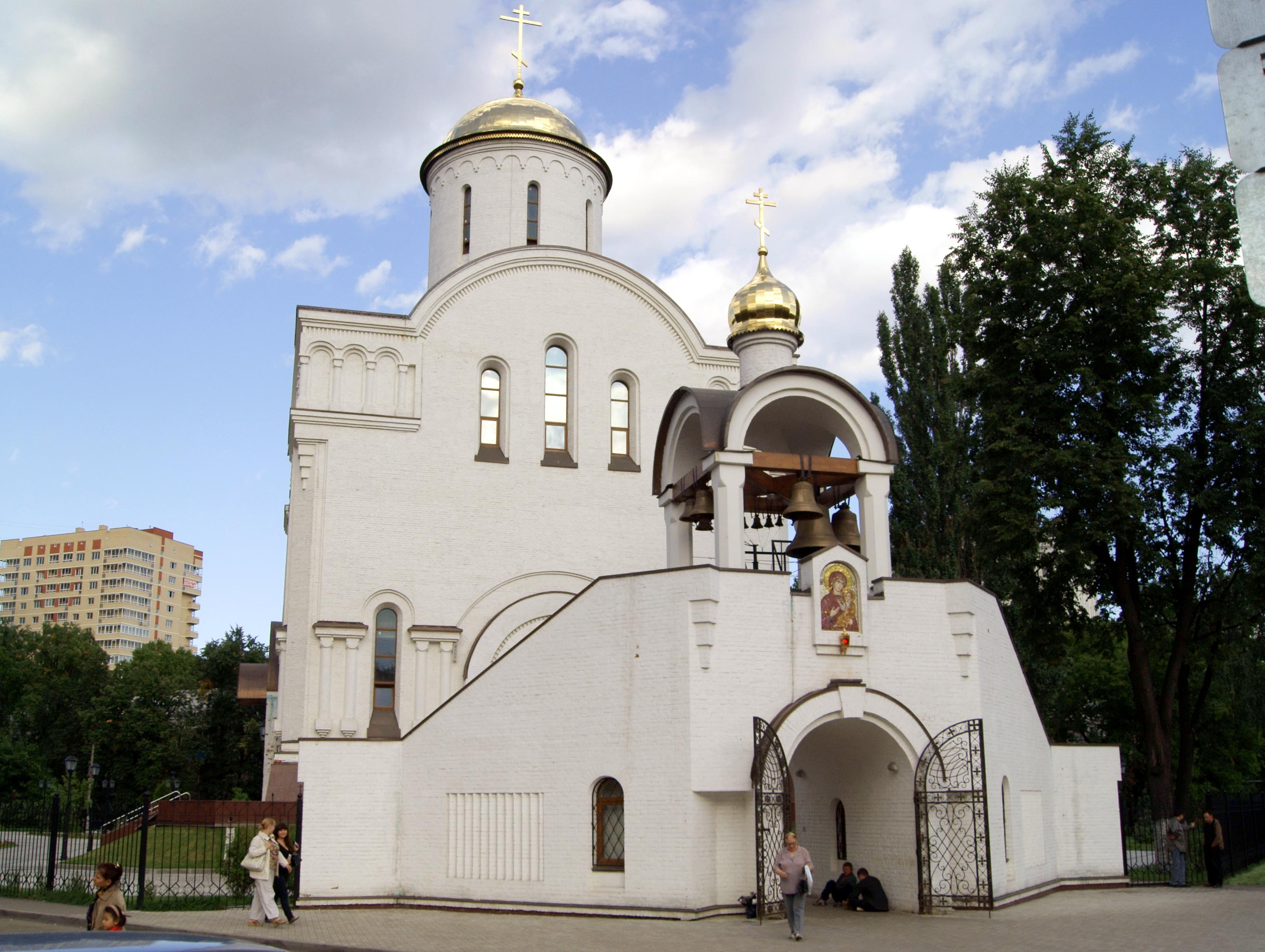 Church of the Transfiguration in Lyubertsy